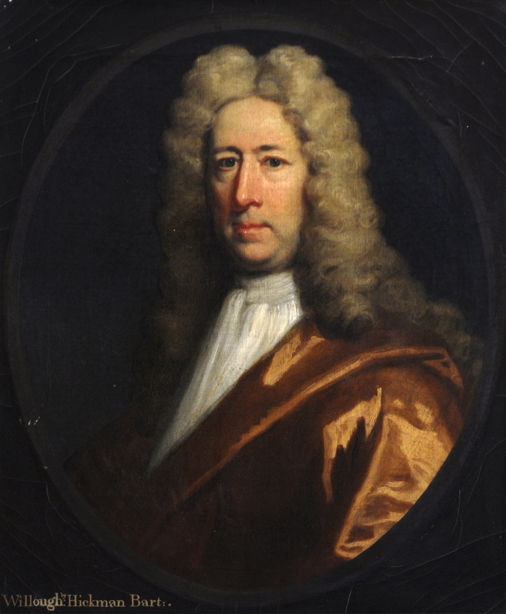 Portrait of Willoughby Hickman (1659-1720)